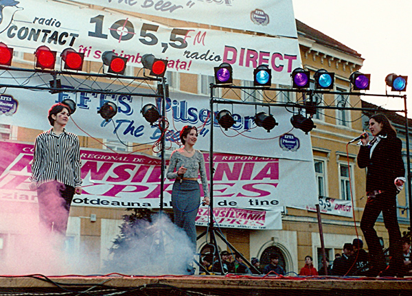 Why Not Girls in concert